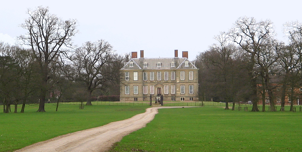 Photo of Stanford Hall in Leicestershire.